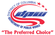 2015 logo of the District of Columbia Department of Public Works.